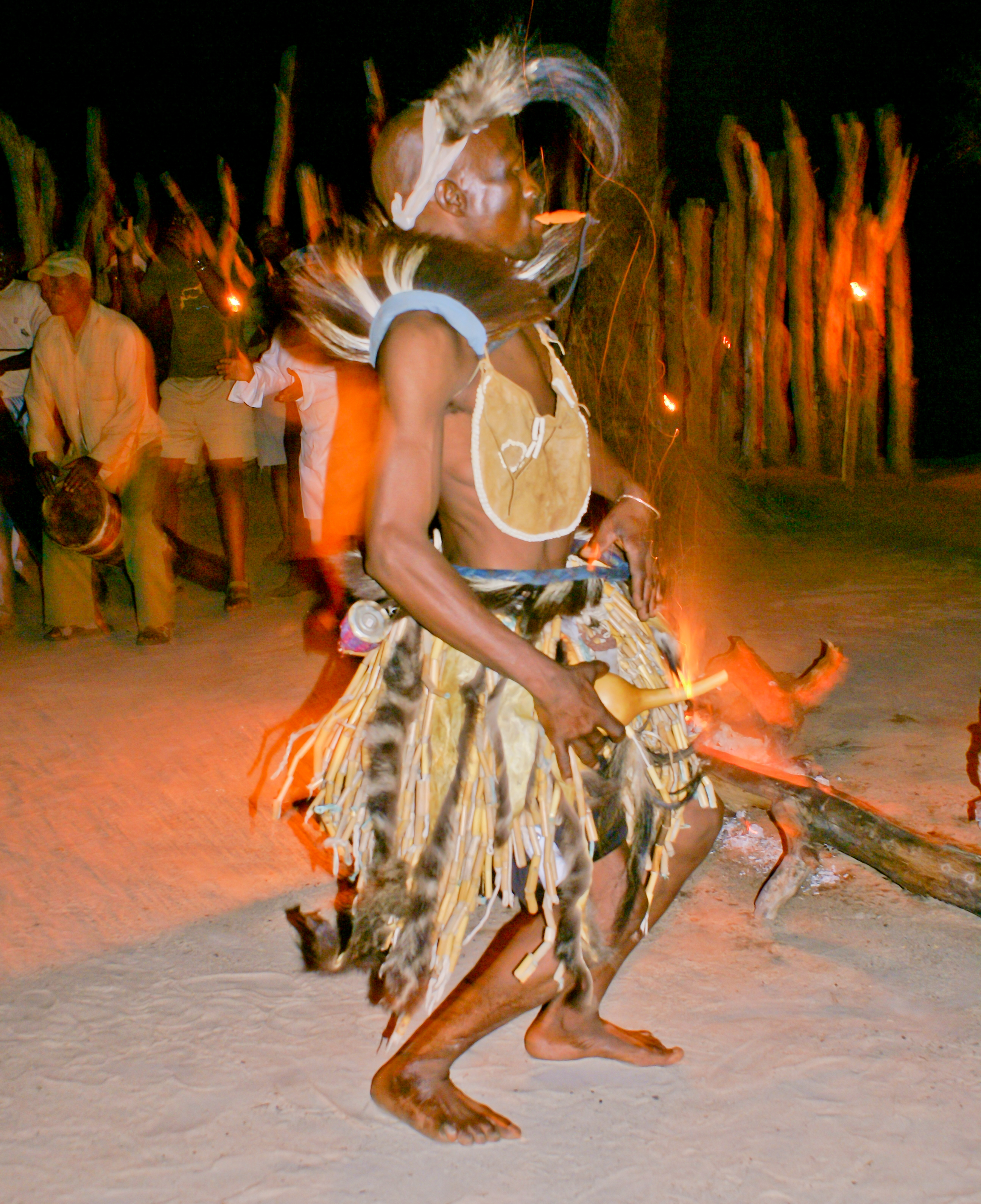 San, or Bushman, performing a dance at Camp Jao in Botswana.